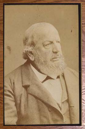 The image of German composer Ferdinand Hiller (1811-1885).